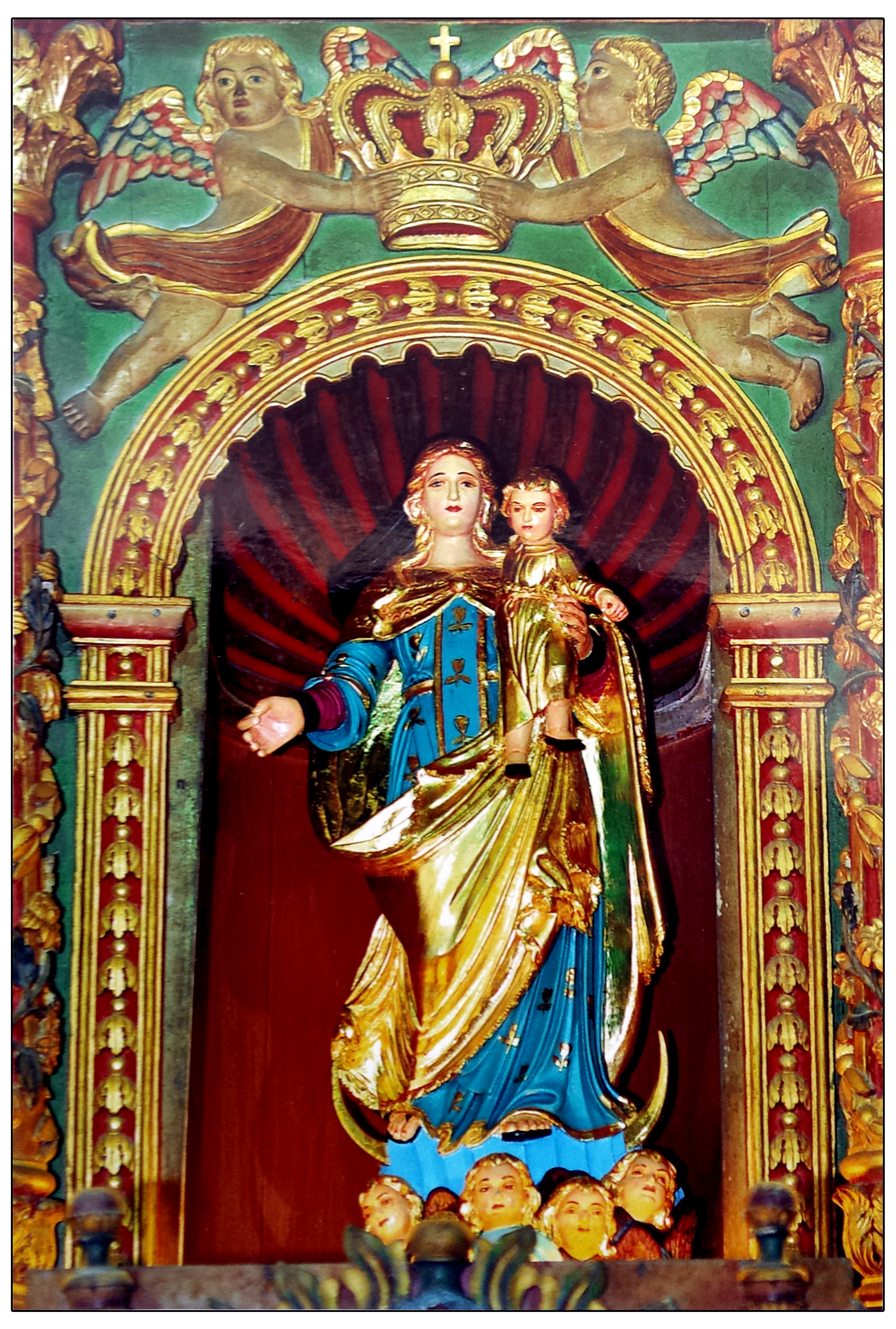 A statue of St. Mary at Kaduthuruthy Knanaya Church